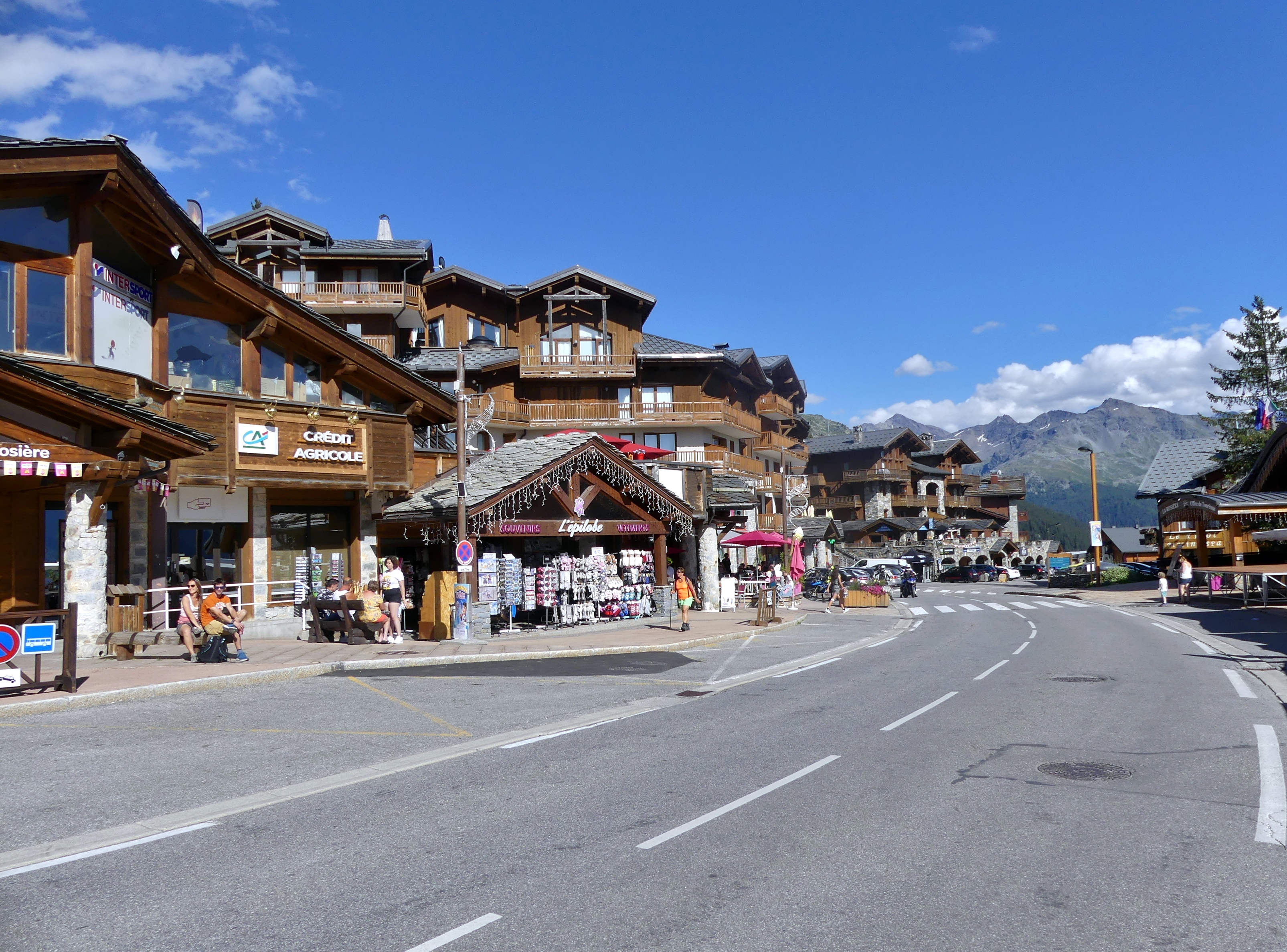 Sight, at the end of the afternoon, of La Rosière resort centre, on the heights of the high Tarentaise valley, in Savoie, France.